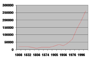 Graph of population history of Sari City Generated by Microsoft Powerpoint